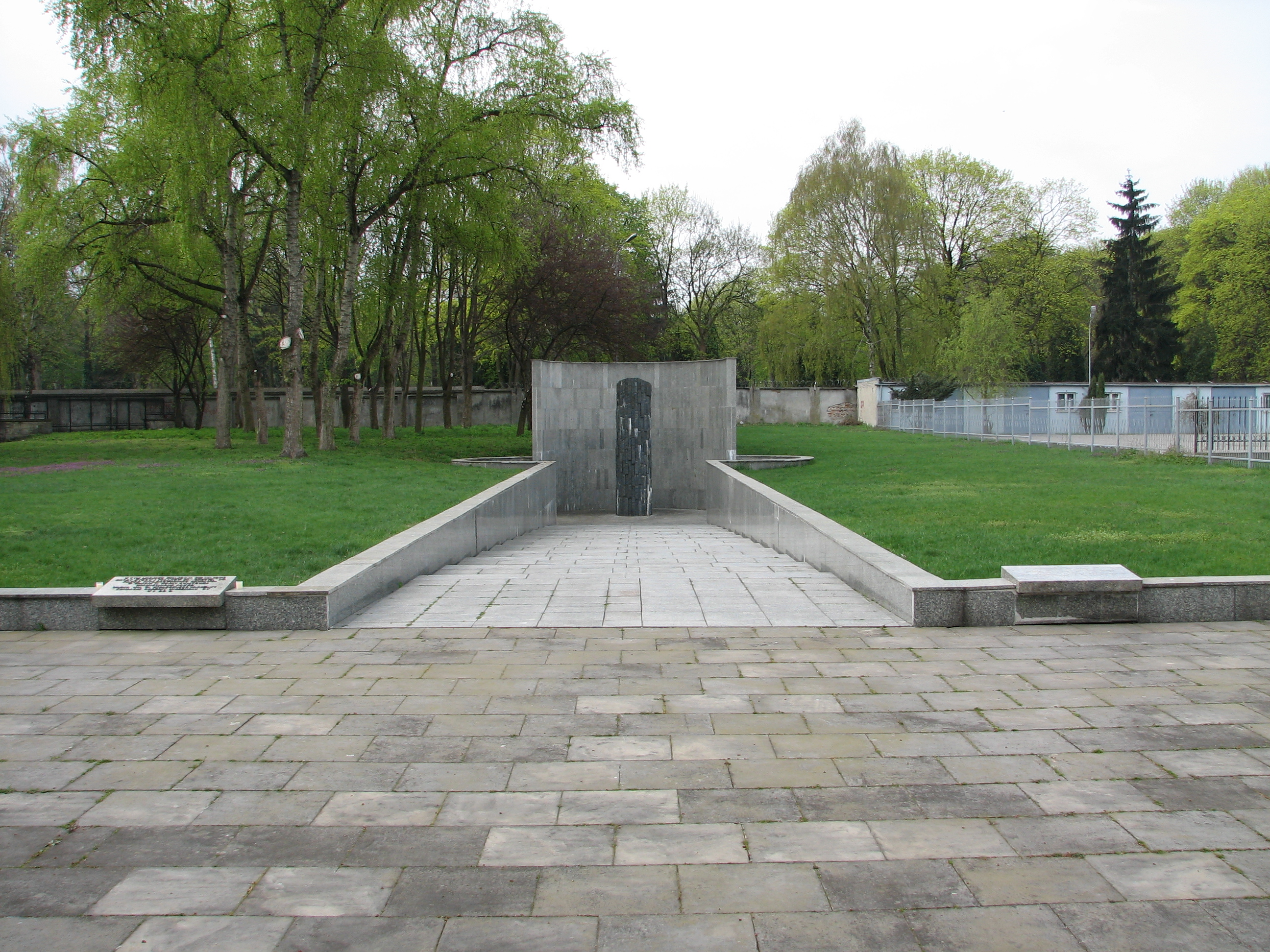 Monument of Jews and Poles Common Martyrdom in Warsaw, Gibalskiego street 21